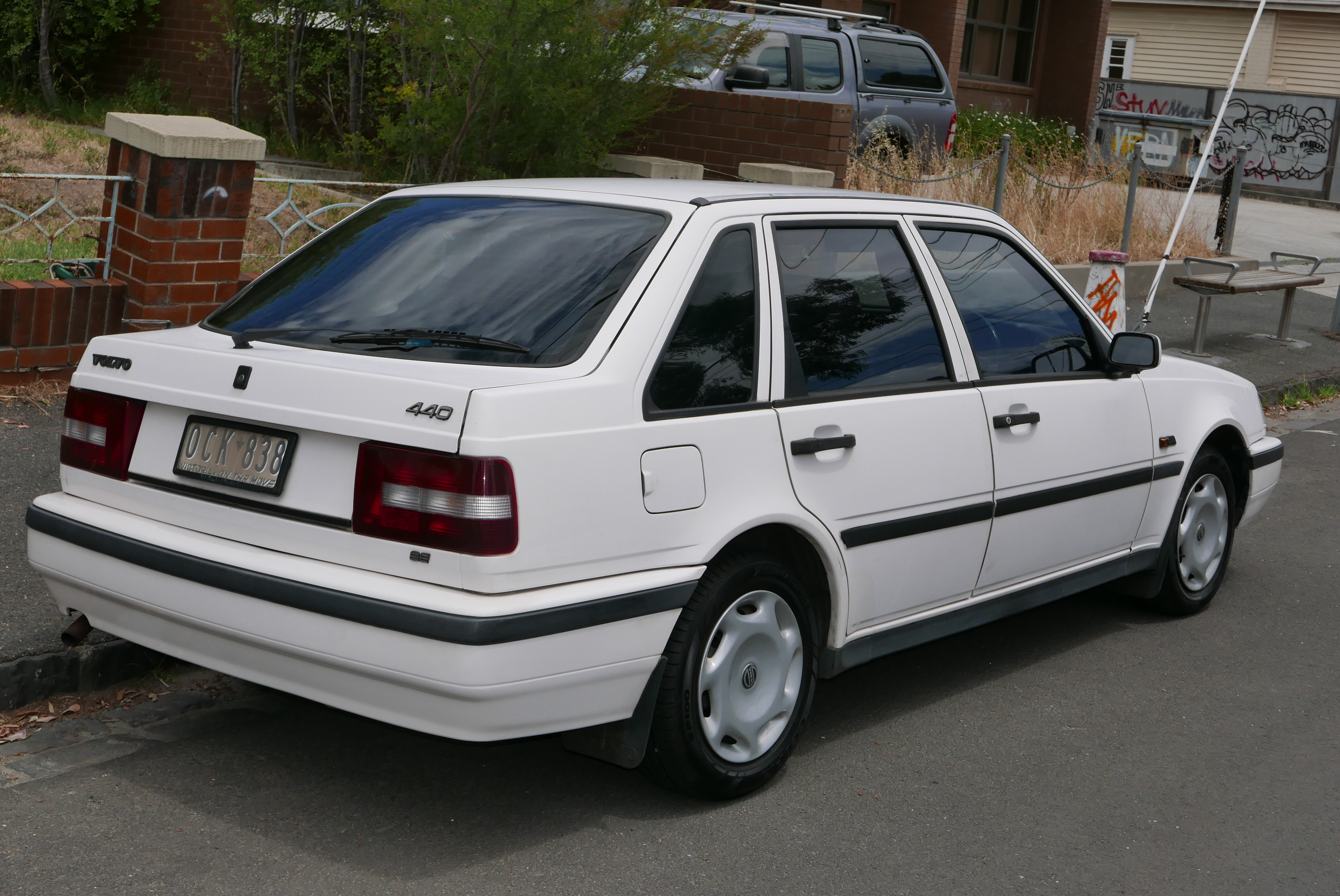 1996 Volvo 440 SE hatchback. Photographed in Brunswick East, Victoria, Australia. Vehicle registration enquiry results Jurisdiction Victoria Registration OCK838 Chassis code XLBKC315ETC703308 Engine code 003097 Compliance date 1996-07 Year of manufacture 1996